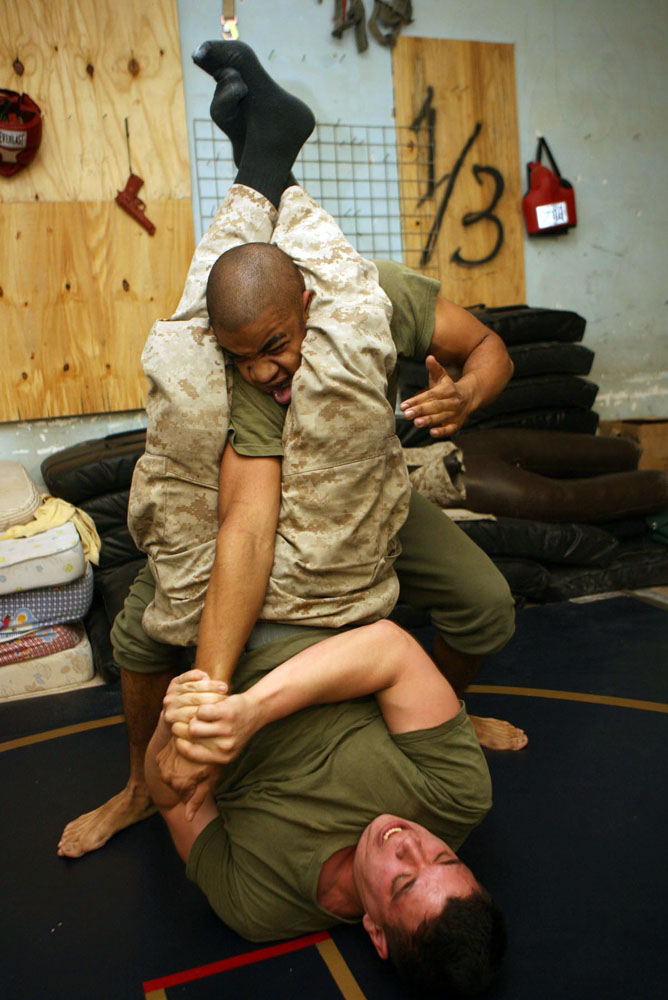 Lance Cpl. Tranquilla McGee (top) practices the Marine Corps Martial Arts Program with his partner Cpl. Nicholas W. Alexie (bottom). Both McGee and Alexie are administrative clerks with 3rd Bn., 23 Marines, and they spend their off-time on the mat practicing MCMAP. MCMAP works in a succession of belt levels beginning at tan and progressing through gray, green, brown and black. Since arriving to 3rd Bn., 23rd Marines as a tan belt, McGee has earned his gray and green belt. McGee says once he returns home he is going to continue with MCMAP and obtain his brown belt.